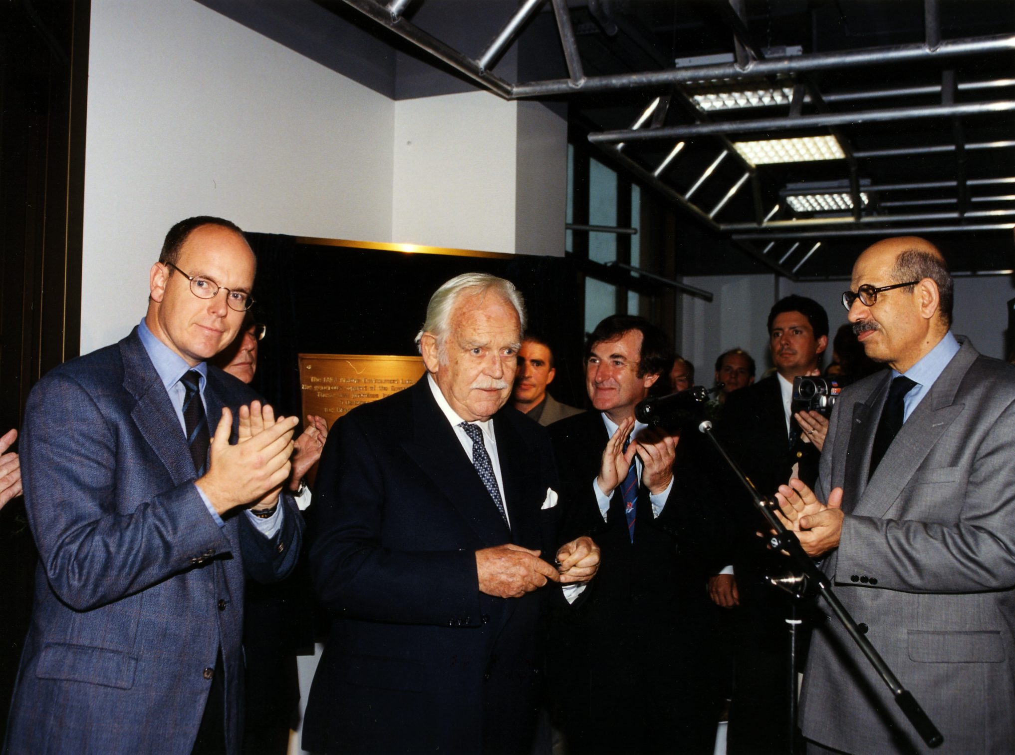 Rainier III. (Monaco) in October 1998